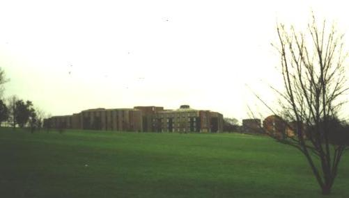 Long shot of Rutherford College, Kent. In the distance can be seen Tyler Court and Darwin College, Kent. Category:Images of the University of Kent